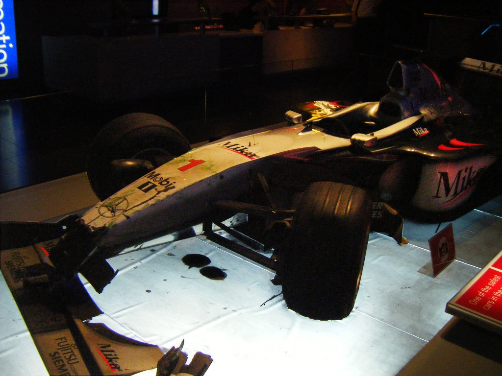 The McLaren-Mercedes MP4/14 Formula 1 car which Mika Hakkinen crashed during the 25th lap of the 1999 German Grand Prix. Apparently he crashed at around 200mph, it's remarkable how little damage the car sustained.